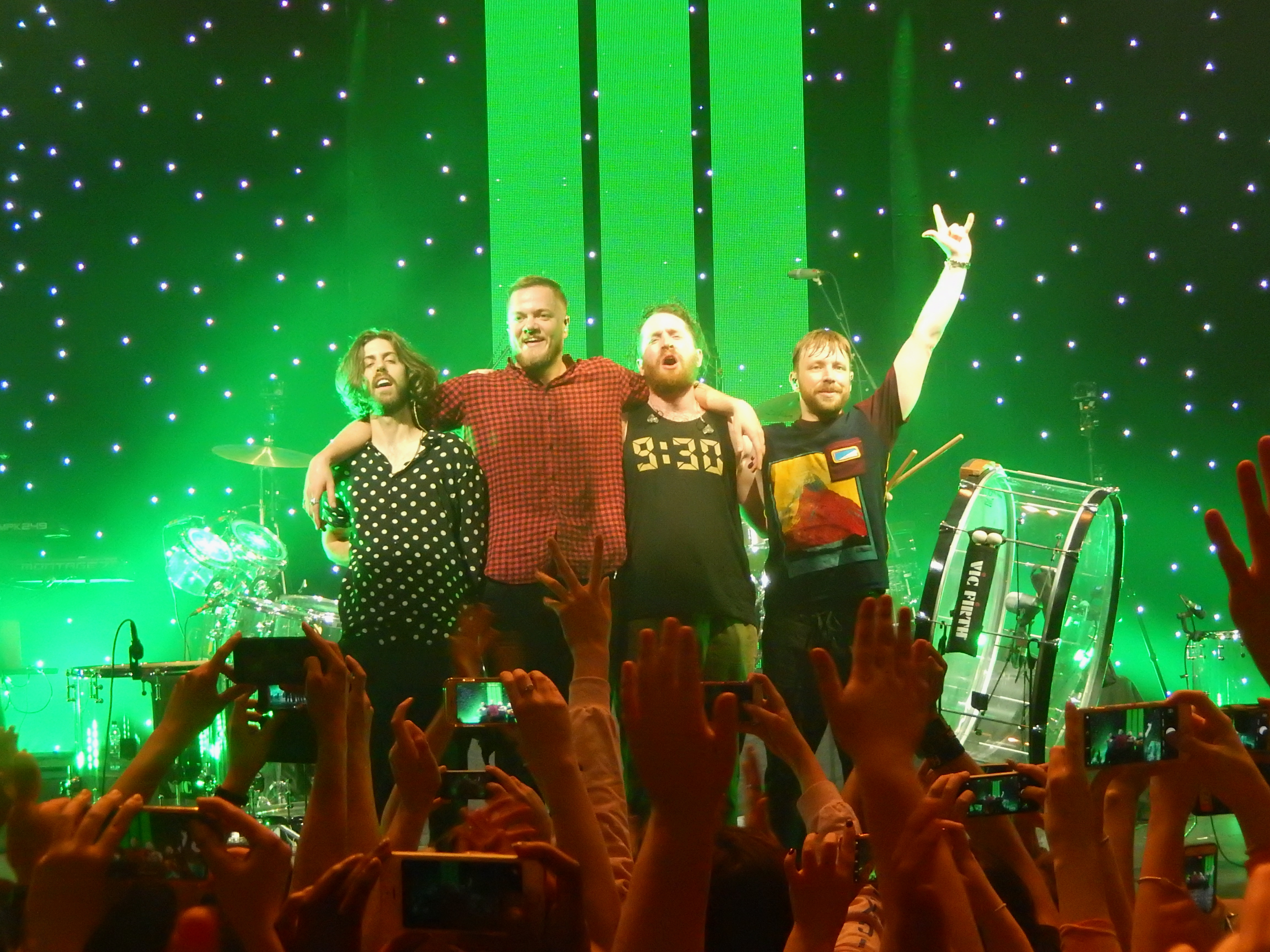 Imagine Dragons, Roundhouse, London